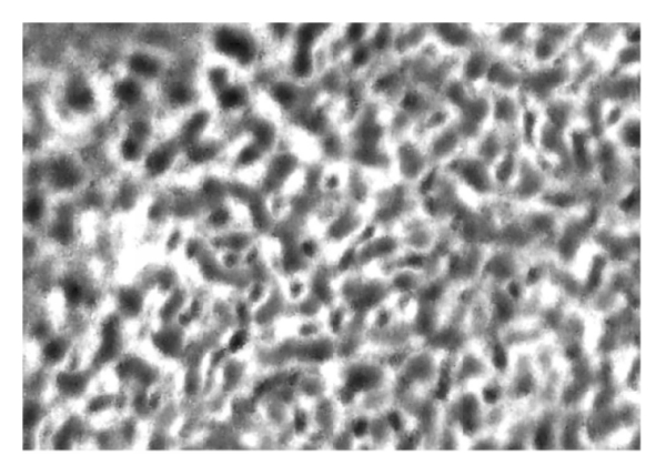 Short rods and cocci of the rickettsial Palaeorickettsia protera in a gastric ceca of Cornupalpatum burmanicum